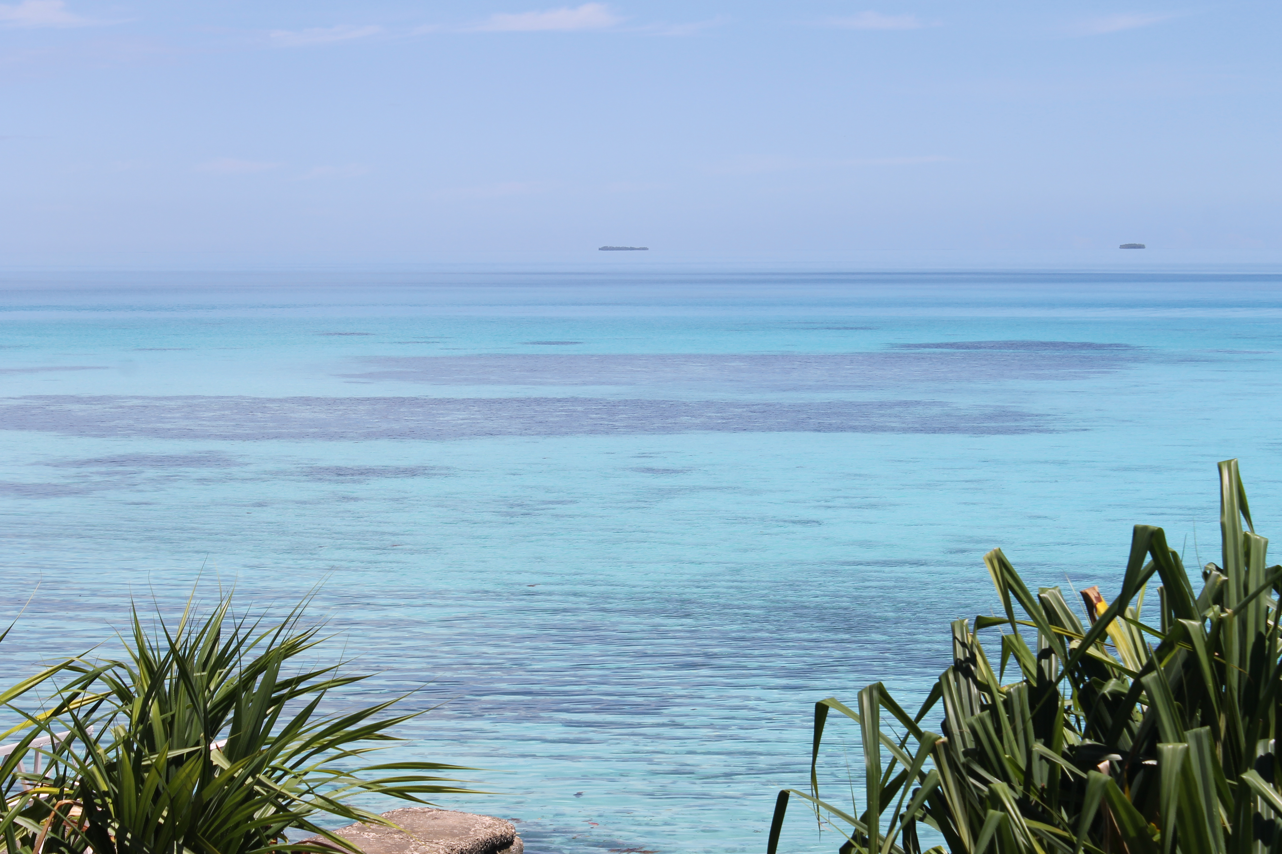 View from Vaiaku Lagi Hotel, Funafuti